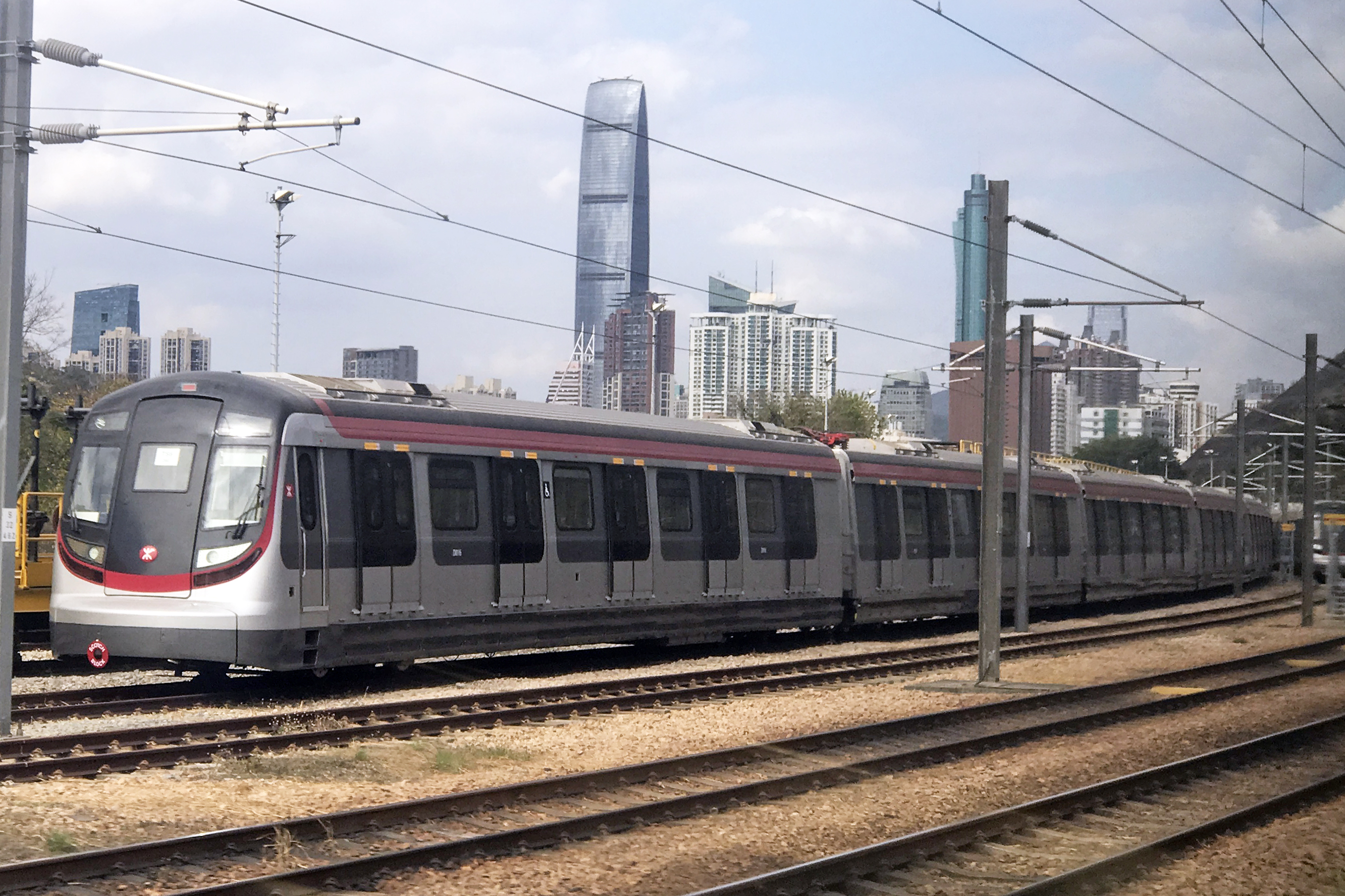 A Rotem train at Lo Wu